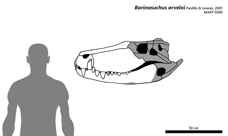 This is all that is known of Barinasuchus arveloi, a big terrestrial crocodile relative (sebecid sebecosuchian to be precise) from the Miocene of Venezuela, Peru and supposeddly, also from the Eocene of Argentina.